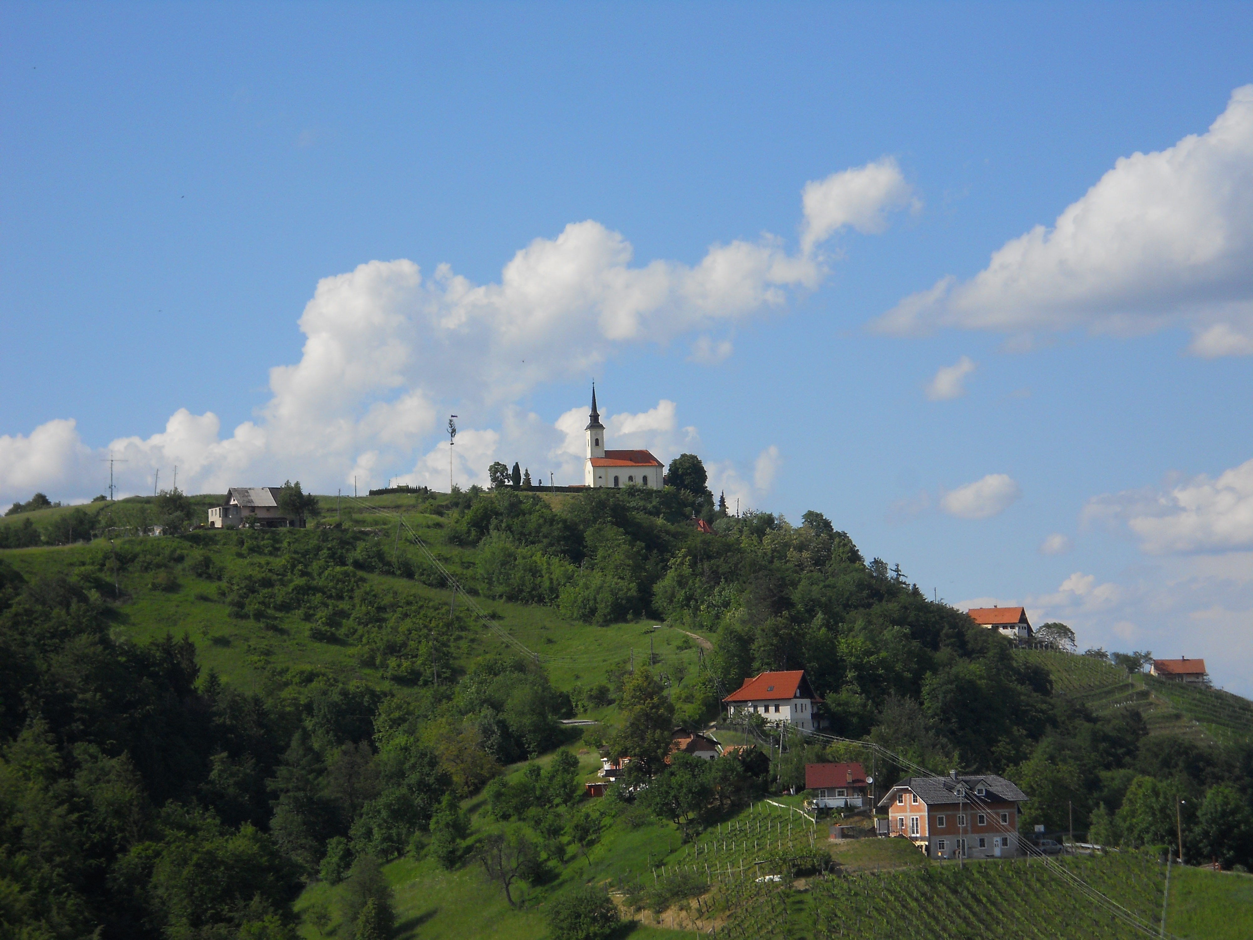 The hill Urban above Maribor. Kamnica, Maribor, Slovenia.